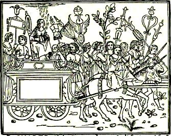 Illustration from Hypnerotomachia Poliphili, by anonymous, AldusManutius Venice 1499. The last part of the name of the file points to the containing page.